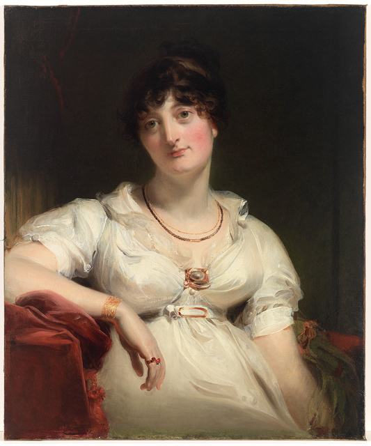 Portrait of Sarah Amherst, 1st Countess Amherst (1762–1838), wife of William Amherst, 1st Earl Amherst, Governor-General of India, widow of Other Windsor, 5th Earl of Plymouth. She was the daughter of Andrew Archer, 2nd Baron Archer.